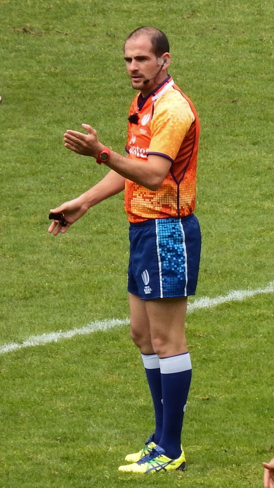 2016 Paris Sevens — 14 May 2016, stade Jean-Bouin. Match between: United States — Canada